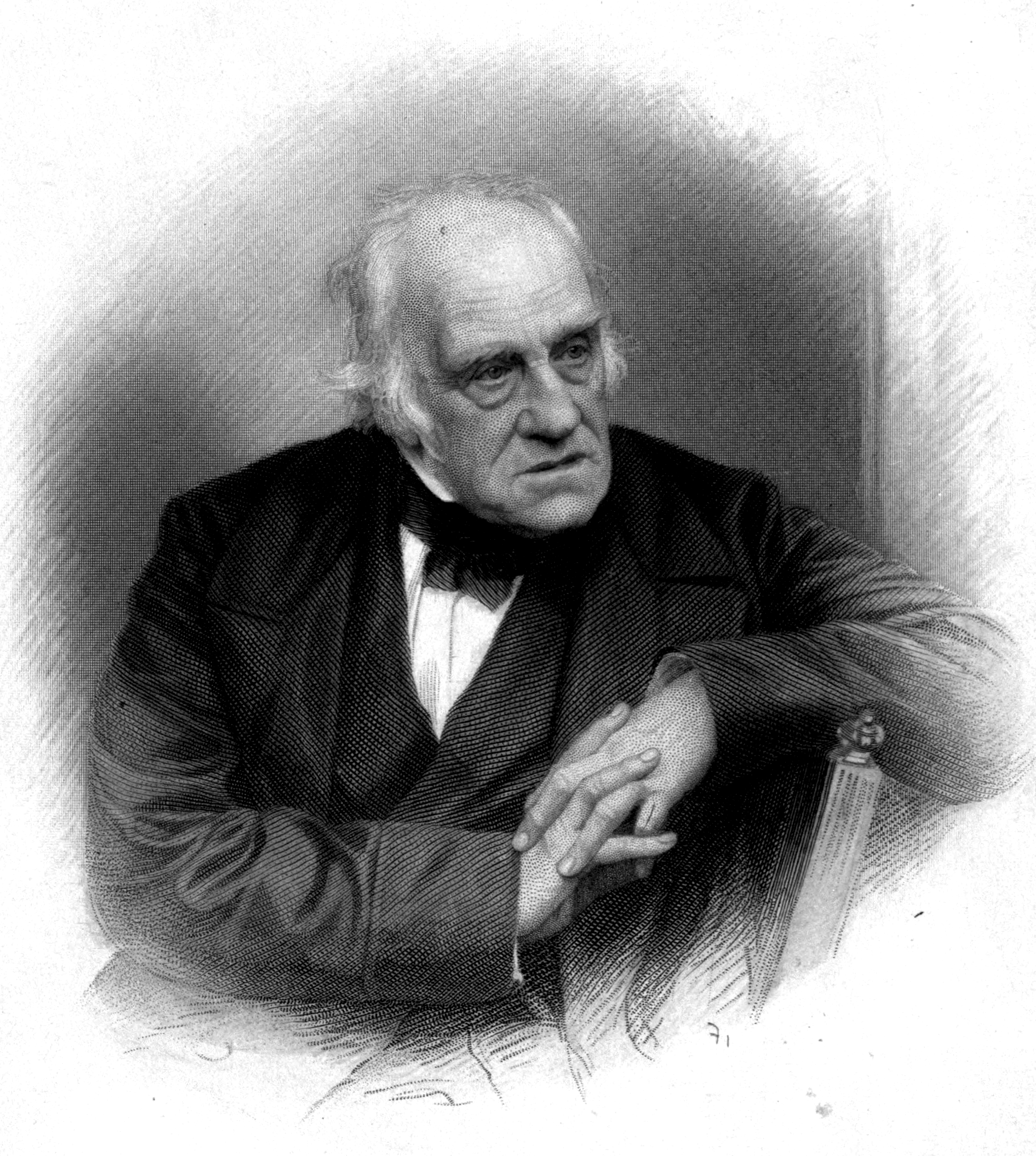 A portrait of Henry Crabb Robinson, from Diary, reminiscences, and correspondence of Henry Crabb Robinson 1869